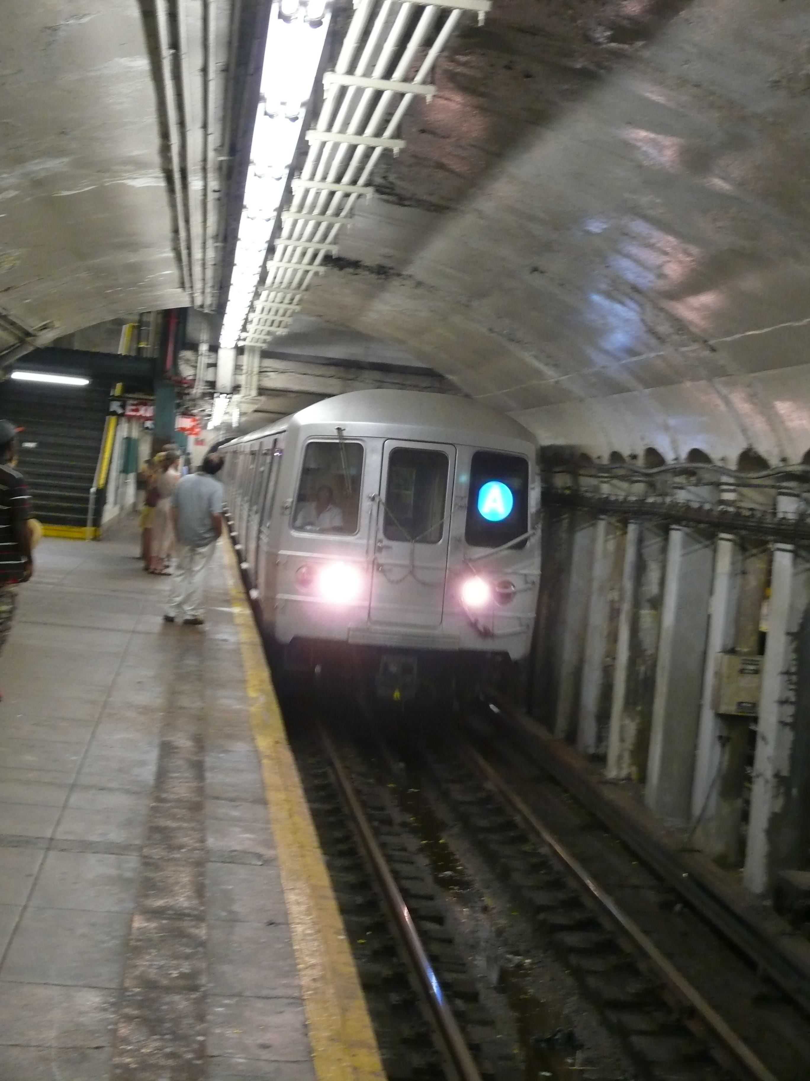 The A Eighth Avenue Express is a rapid transit service of the New York City Subway. It is colored blue on route signs, station signs, and the official subway map. It runs from 207th Street in Inwood, Manhattan, to Mott Avenue in Far Rockaway, Queens.